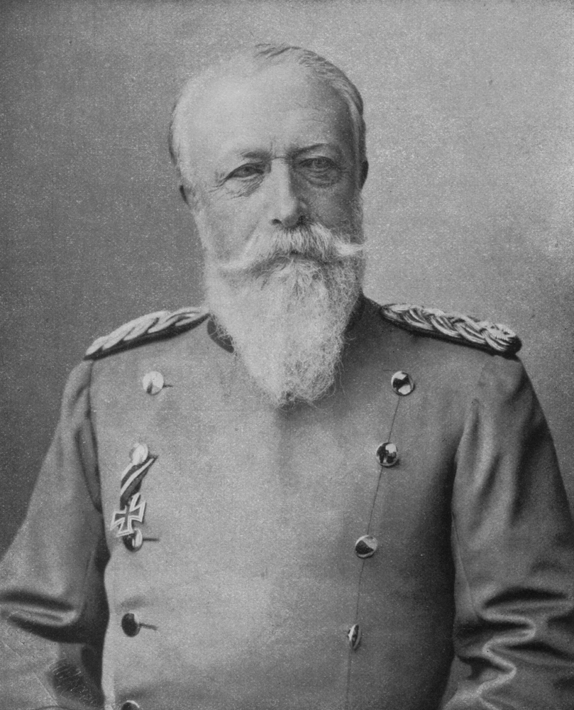 Frederick I, Grand Duke of Baden (1826-1907), in 1902.